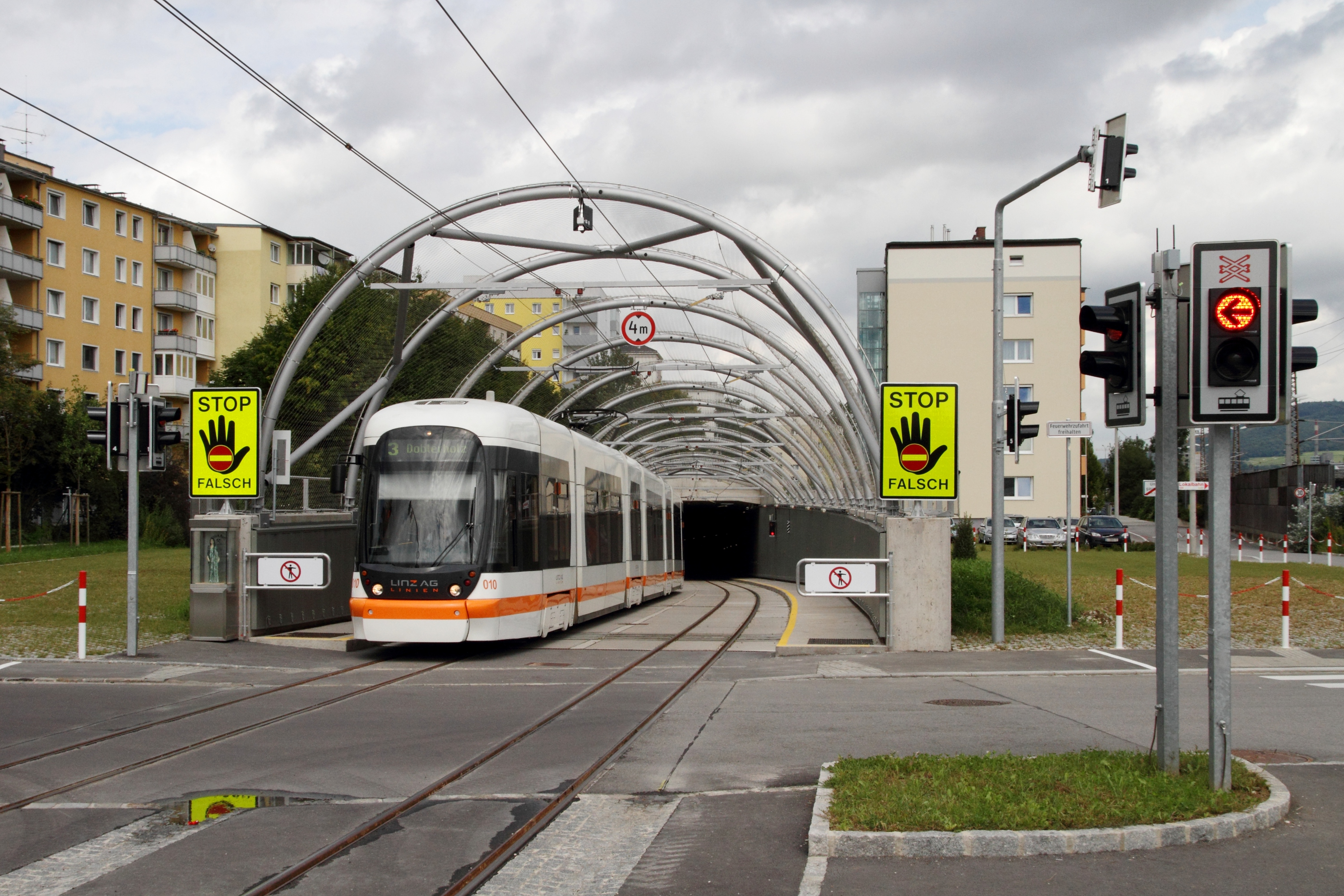 Bombardier Cityrunner at the Untergaumberg tunnel entrance of the extended line 3.